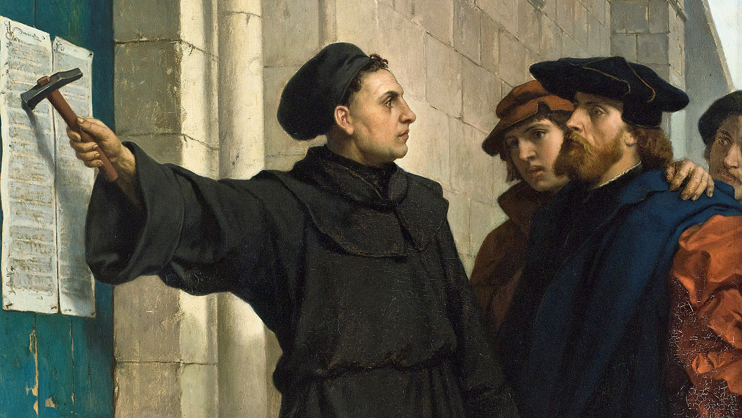 luther posting his 95 theses in 1517